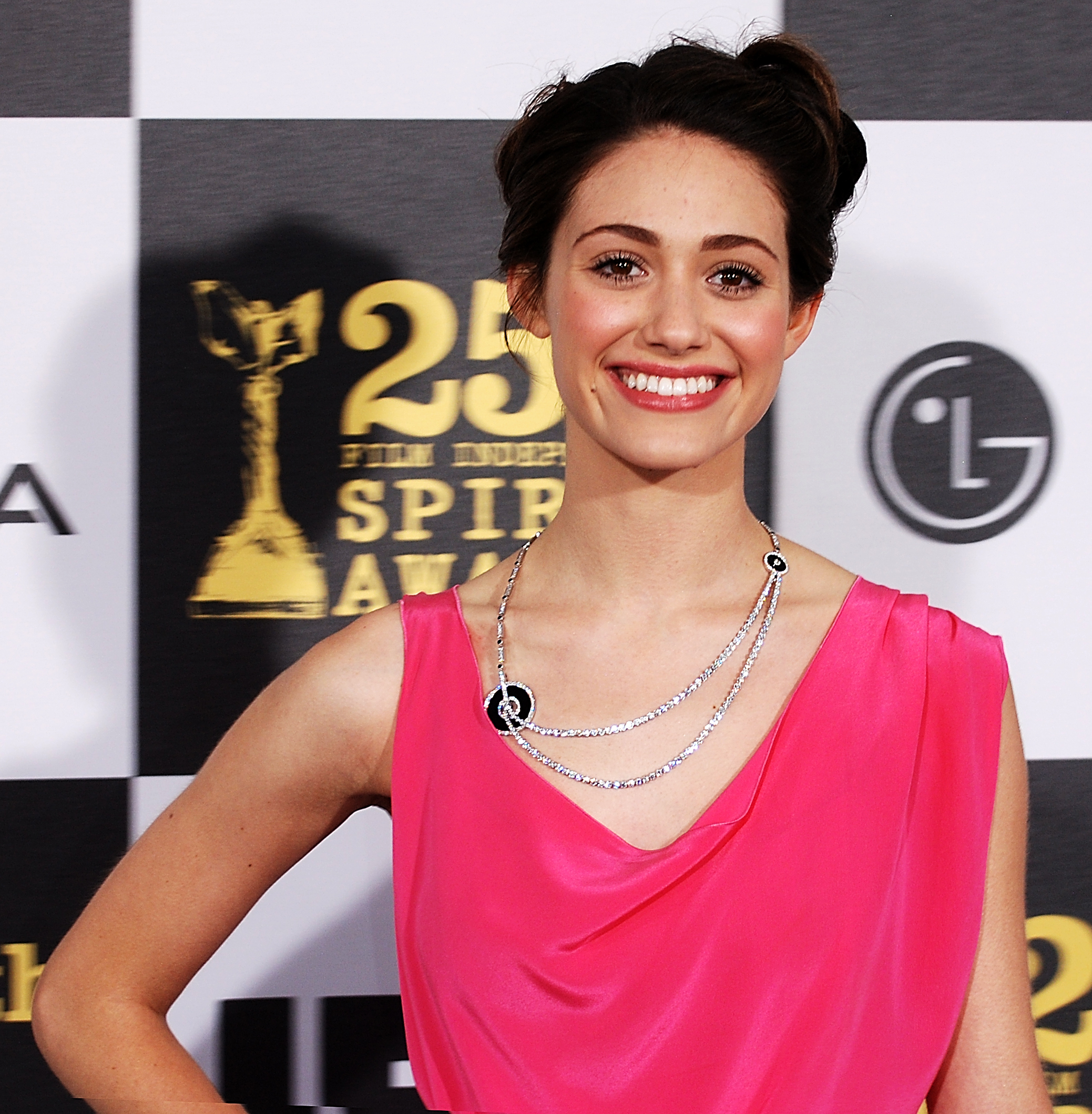 Actress Emmy Rossum at the 2010 Independent Spirit Awards.